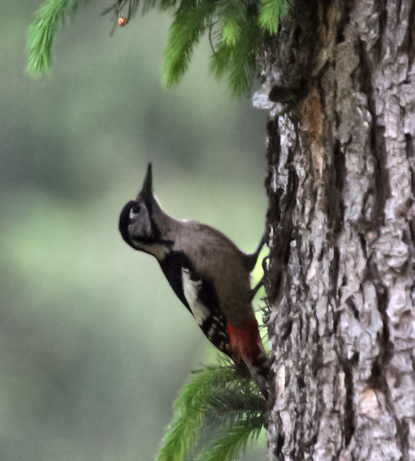 Himalayan Woodpecker Dendrocopos himalayensis in Kullu District of Himachal Pradesh, India.